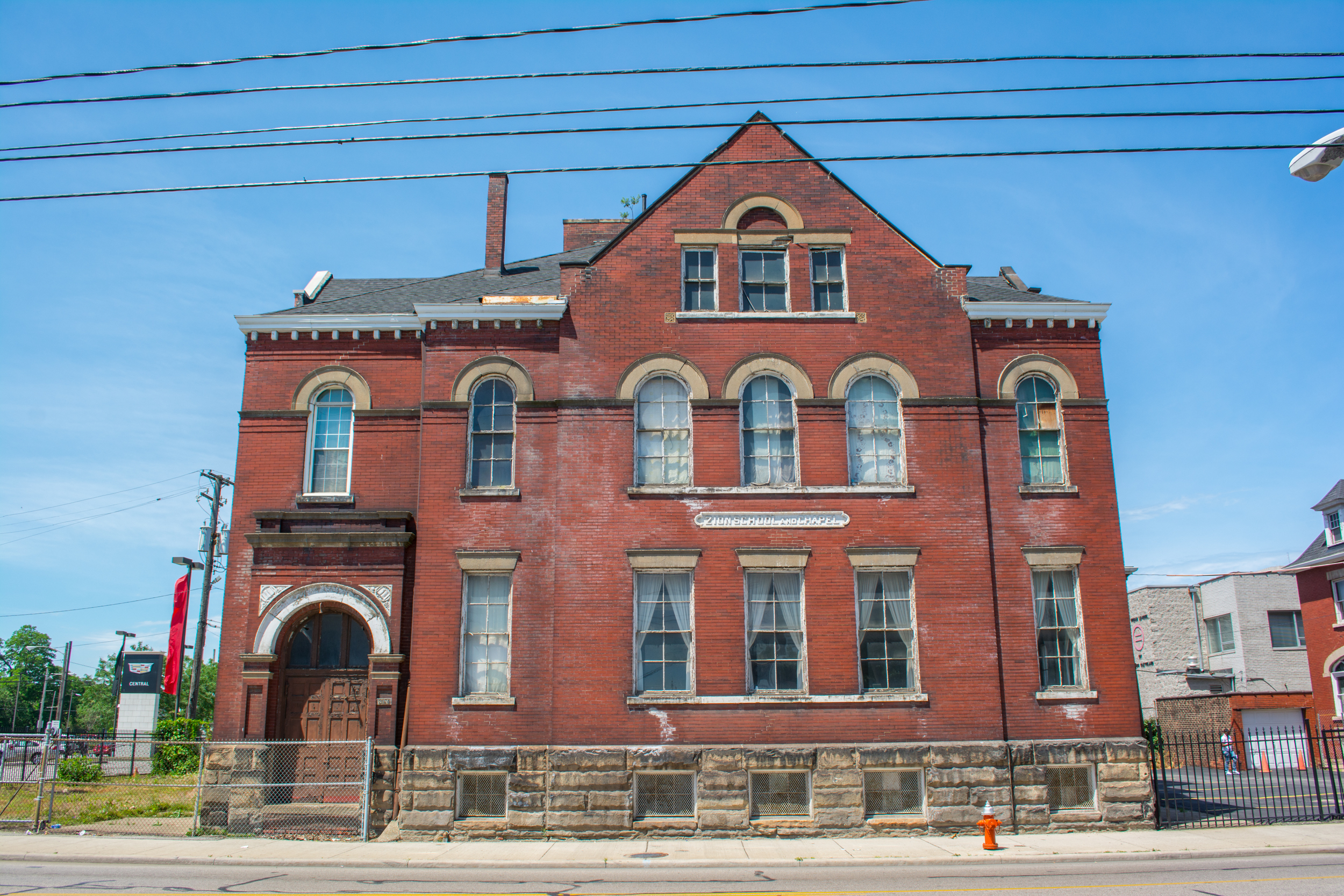 Front facade of Zion Lutheran Church School located at 2074 E. 30th Street in Cleveland, Ohio, in the United States. This structure was added to the National Register of Historic Places on November 1, 1984.